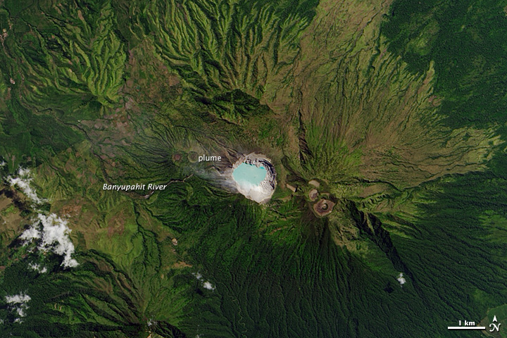 The turquoise lake in the crater of the Kawah Ijen volcano looks serene and inviting. It also happens to be the world's largest acidic lake. The water in the crater lake has a pH less than 0.3 on a scale of 0 to 14 (7 is neutral). For comparison, lemon juice has a pH of 2; battery acid has a pH of 1. That acidity affects the chemistry of nearby river ecosystems, including the river Banyupahit. Originating at the lake, the Banyupahit delivers acidic water to populated areas downstream. According to a 2005 research paper, the river water that local farmers use to irrigate crops has a pH between 2.5 and 3.5. The normal range for stream water, according to the U.S. Geological Survey, is between about 6 and 8. On August 22, 2013, the Operational Land Imager (OLI) on Landsat 8 captured this view of the lake in East Java, Indonesia. The turquoise color comes from the range of materials dissolved in the water, including hydrochloric and sulfuric acids. The craters of several other volcanoes are also visible within the 20-kilometer-wide (12-mile) Ijen caldera. The plume drifting west from the crater likely comes from fumaroles, which release hot gases from underground magma. The plume could also come from hot springs and mud pots, according to Erik Klemetti, a volcanologist at Denison University. “The plume is white, so it is likely mostly steam with some other volcanic gases like carbon dioxide and sulfur dioxide mixed in.” Despite the presence of toxic gases around Kawah Ijen, workers mine sulfur by using a series of pipes installed under one of the volcano's active vents. Gas inside the pipes condenses into molten sulfur as it moves toward the surface, where it then cools and hardens.